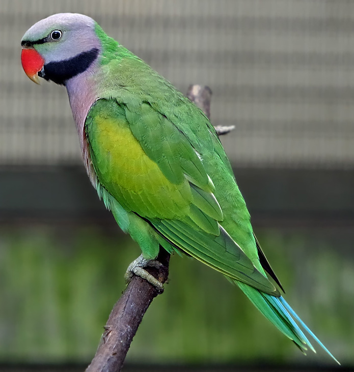 Derbyan Parakeet - adult male